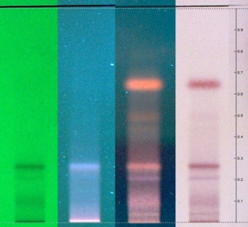 Example of derivatized TLC plate. From left to right: 254 nm, 366 nm, 366 nm Anisaldehyd reagent, daylight Anisaldehydreagent